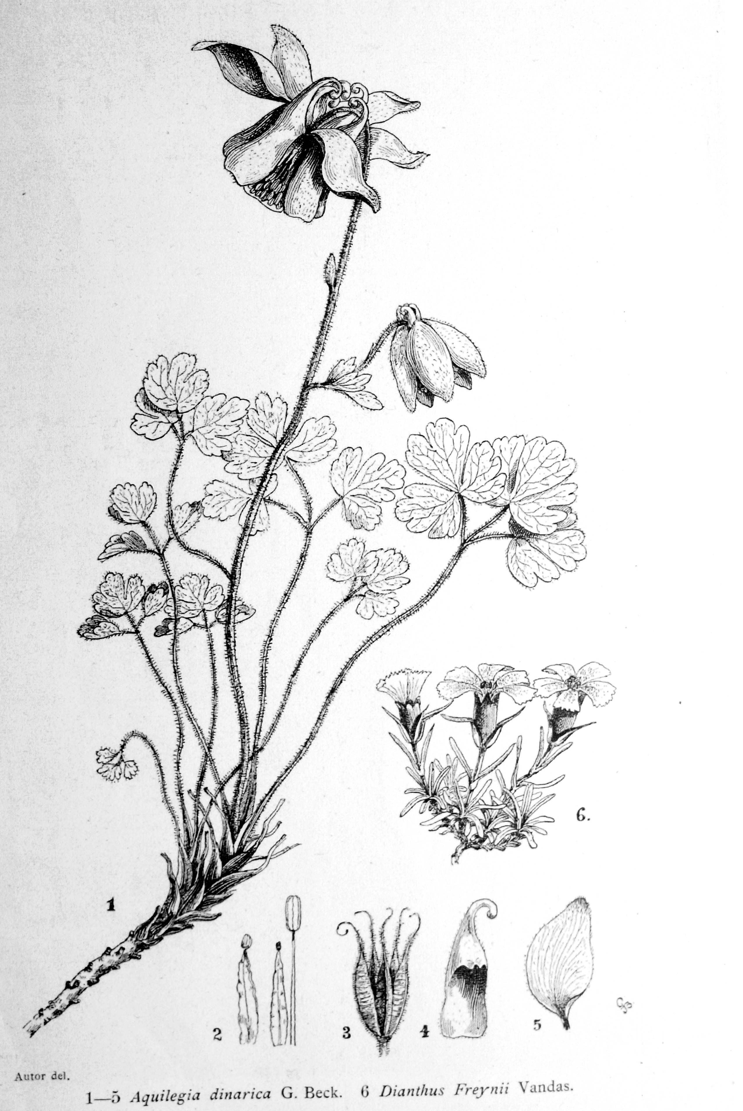 Original drawing to the protologue of Aquilegia dinarica Beck from Becks Flora von Südbosnien und der angrenzenden Gebiete, 1891